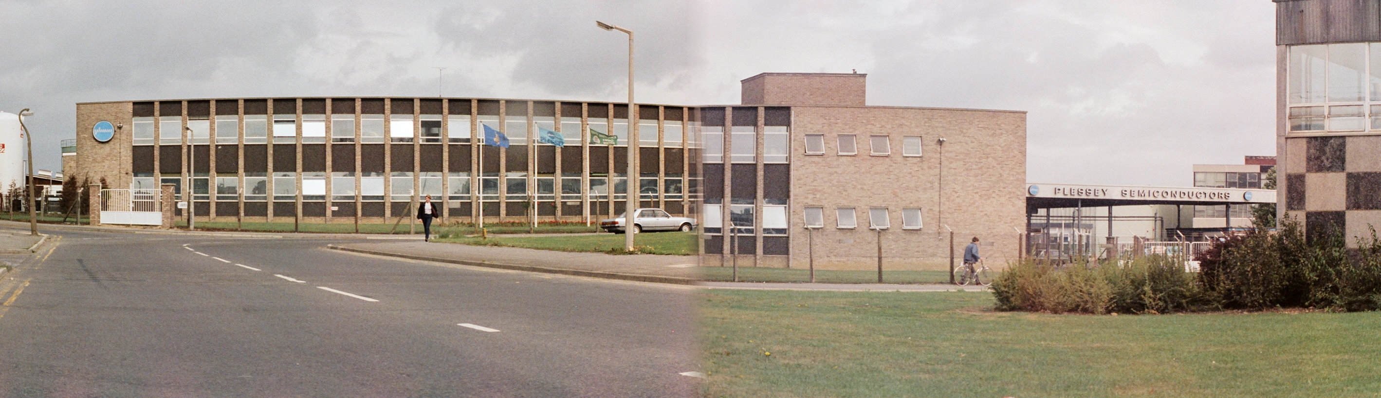 Plessey Semiconductors work at Cheyney Manor, Swindon in 1982